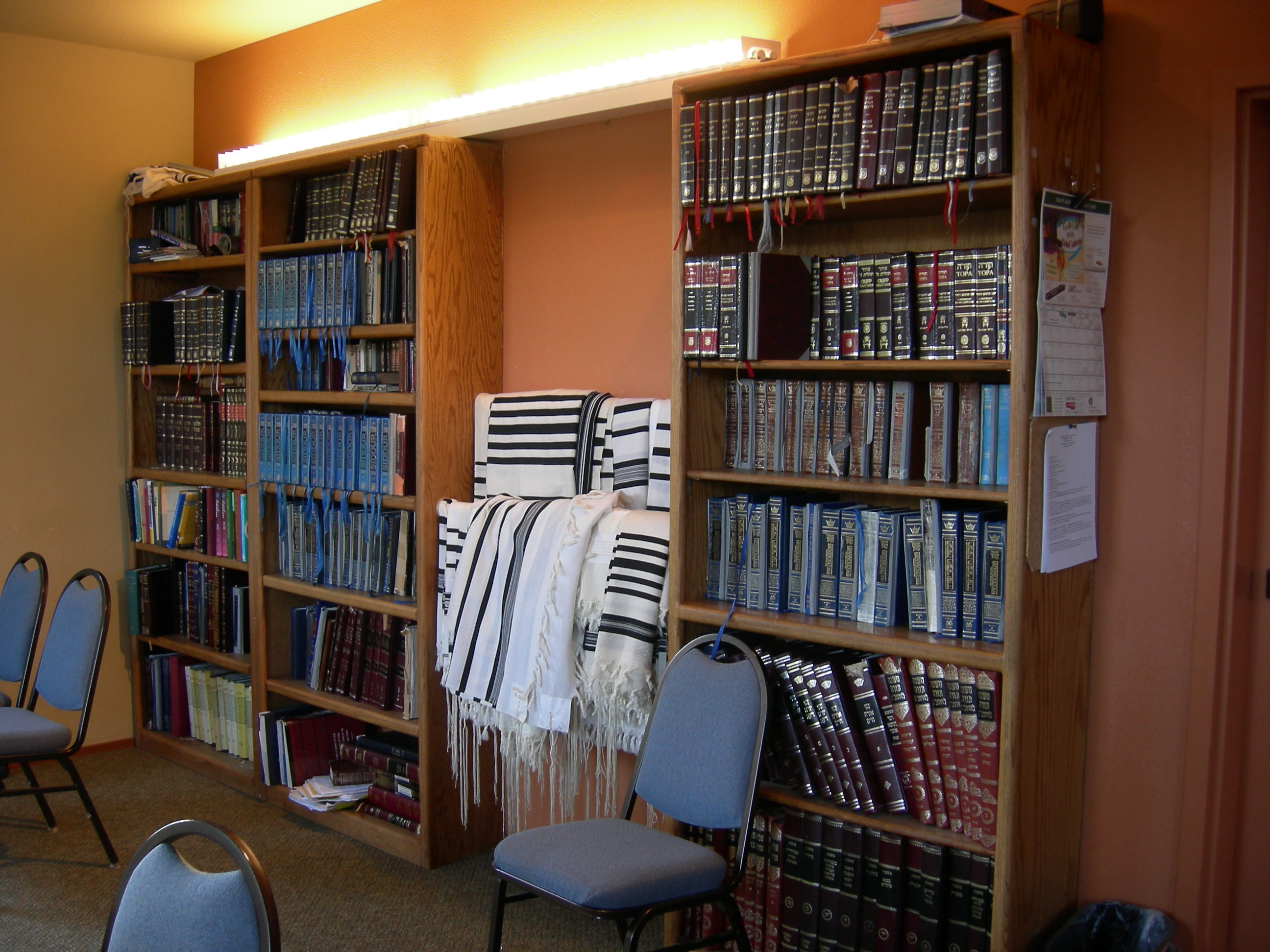 Bookshelves, Congregation Shaarei Tefilah Lubavich, Seattle, Washington.